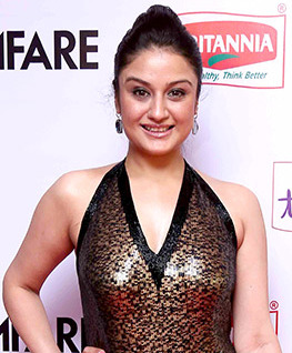 Actress Sonia Agarwal at the 62nd Filmfare Awards South